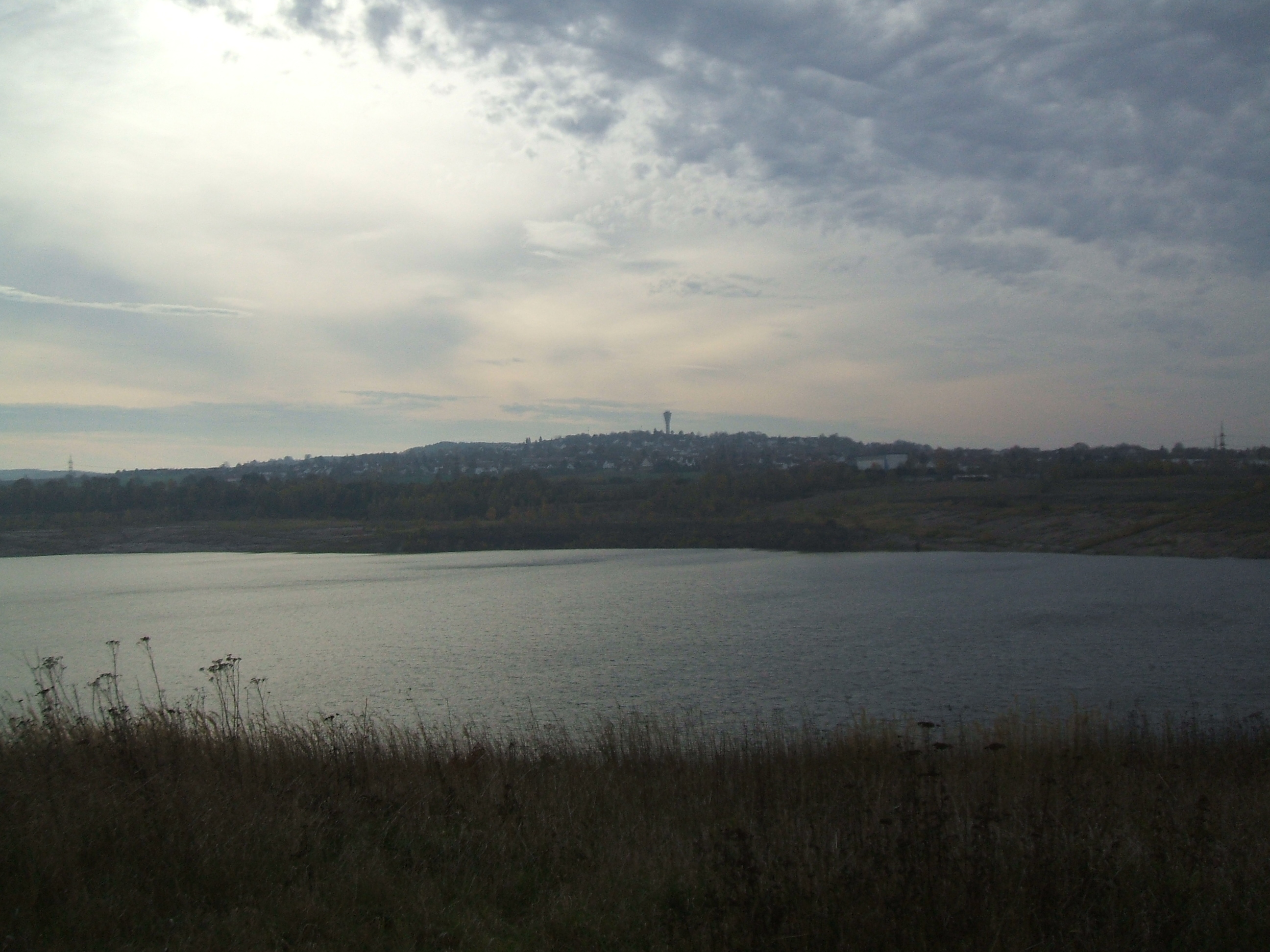 View across the Lake of Gombeth towards Borken (Hesse), 2008